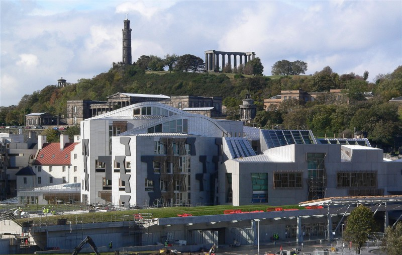 Scottish Parliament and Calton Hill, from Salisbury Crags, Edinburgh